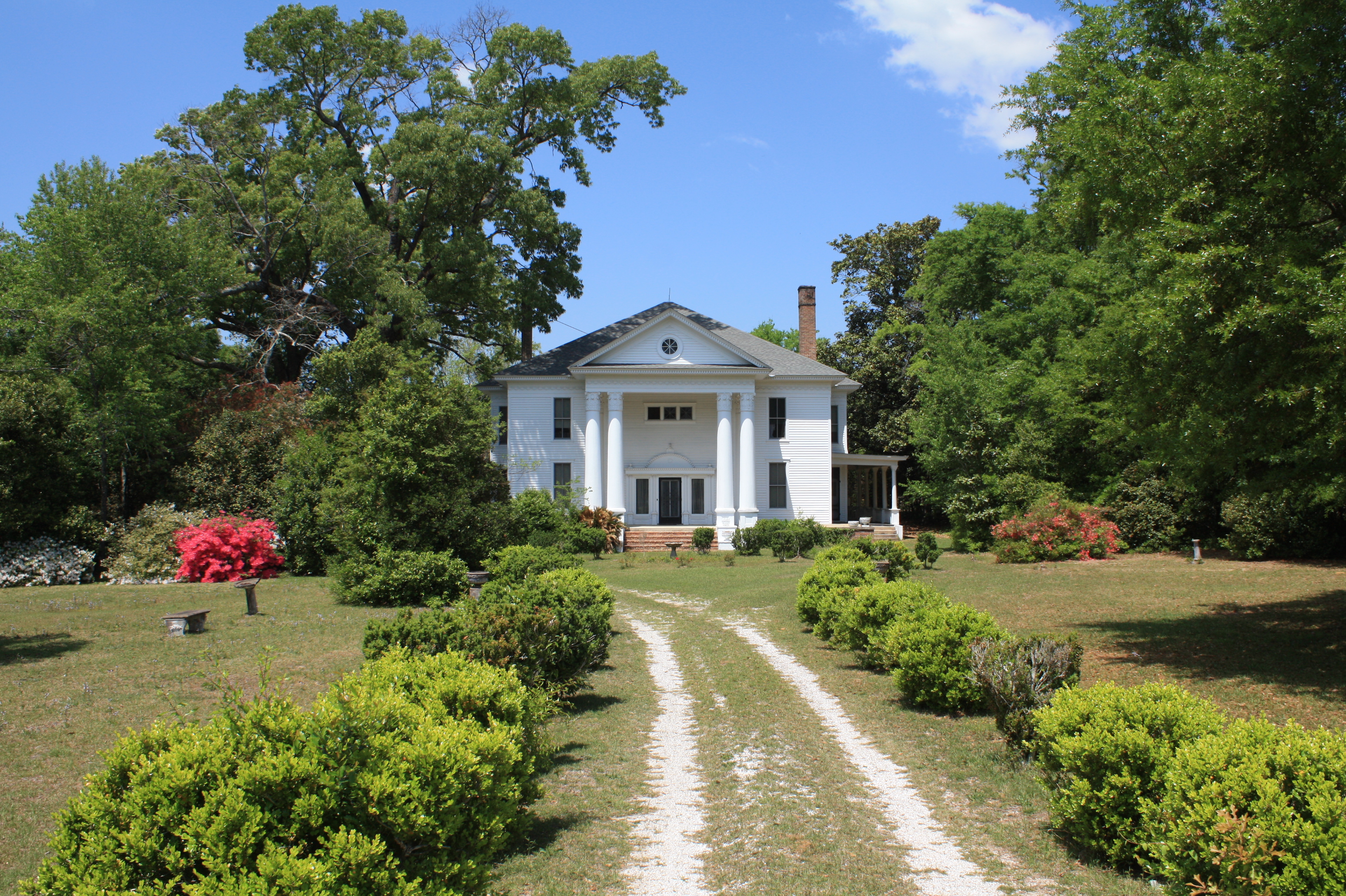 N.Q. and Virginia M. Thompson House on E. Lebaron Avenue in Citronelle, Alabama, United States. Individually listed on the National Register of Historic Places.